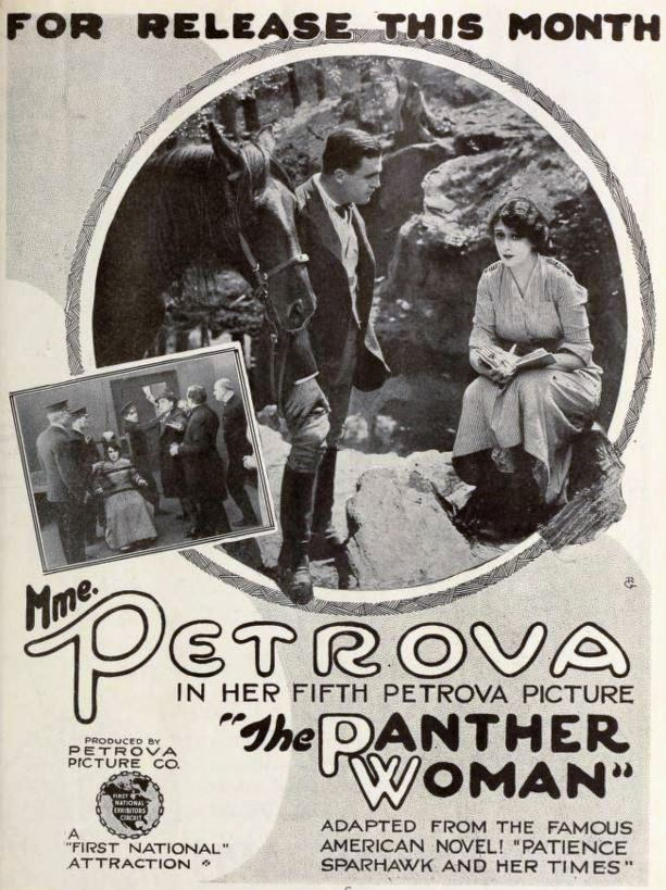 Advertisement for the American drama film The Panther Woman (1918) with Rockliffe Fellowes and Olga Petrova, on page 9 of the October 26, 1918 Exhibitors Herald.